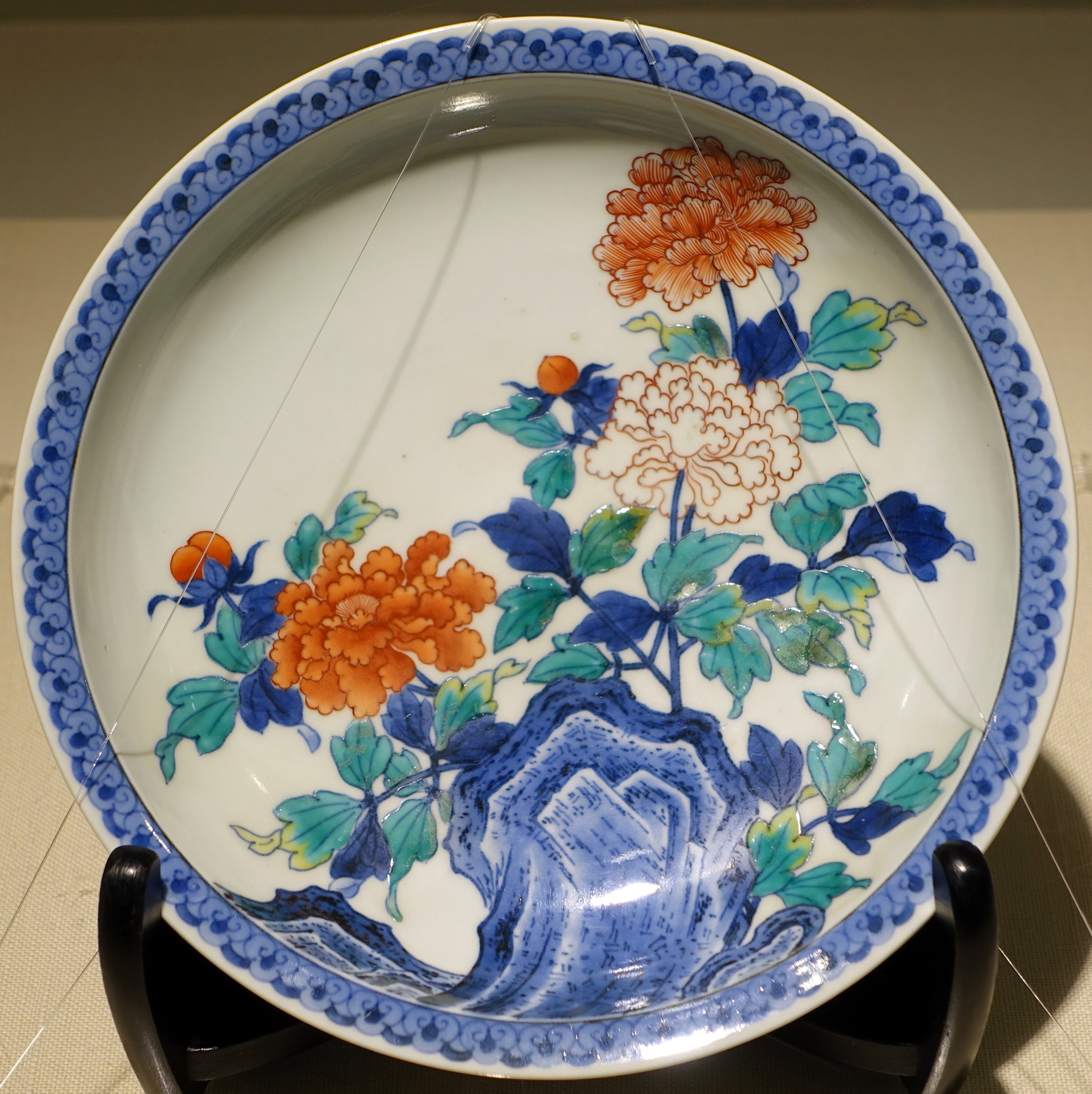 Exhibit in the Matsuoka Museum of Art - 5 Chome-12-6 Shirokanedai, Minato, Tokyo 108-0071, Japan.